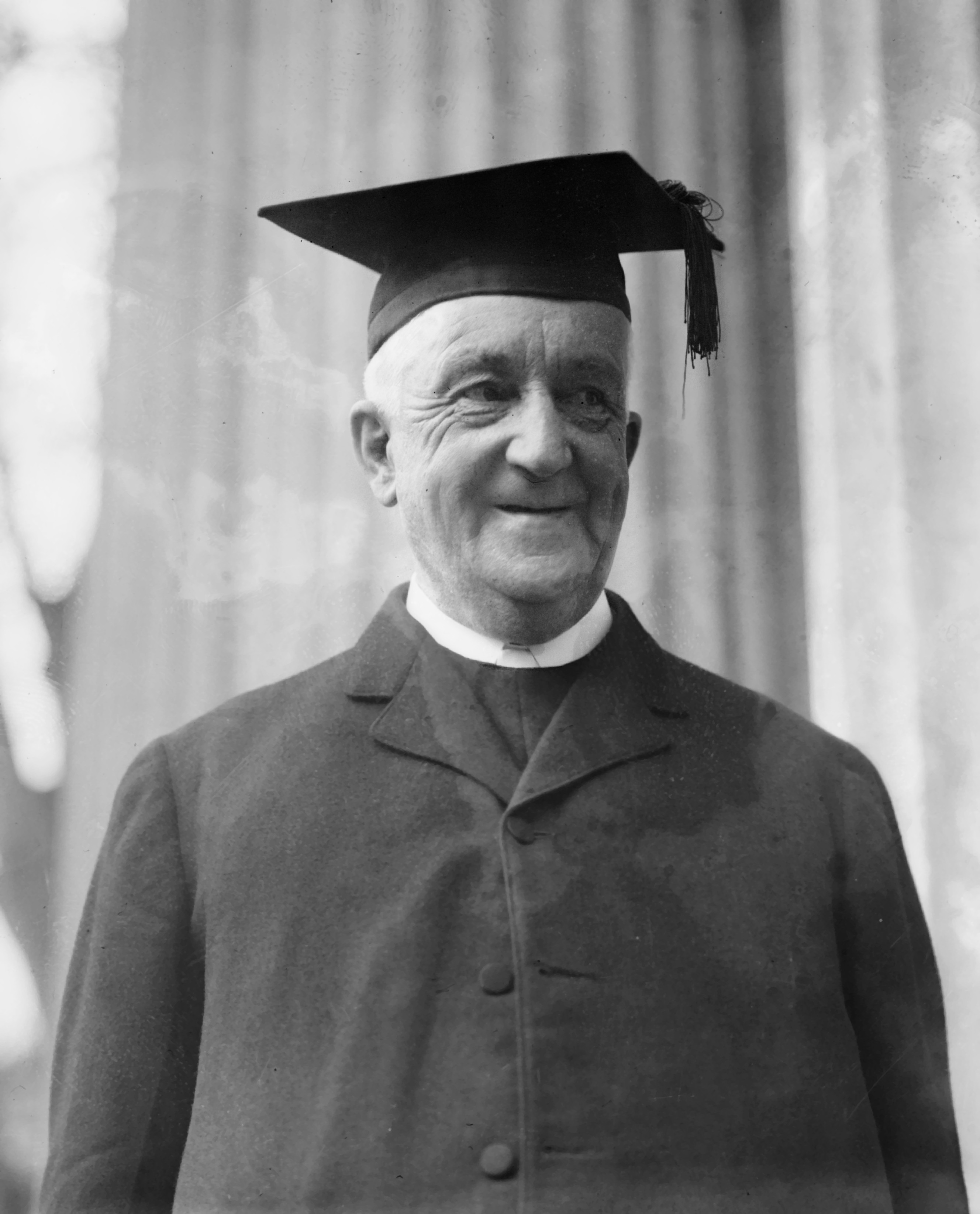 Bain News Service,, publisher. Samuel Hart in 1913 [between ca. 1910 and ca. 1915] 1 negative : glass ; 5 x 7 in. or smaller. Notes: Title from unverified data provided by the Bain News Service on the negatives or caption cards. Forms part of: George Grantham Bain Collection (Library of Congress). Format: Glass negatives. Repository: Library of Congress, Prints and Photographs Division, Washington, D.C. 20540 USA, General information about the Bain Collection is available at Persistent URL: Call Number: LC-B2- 2893-6